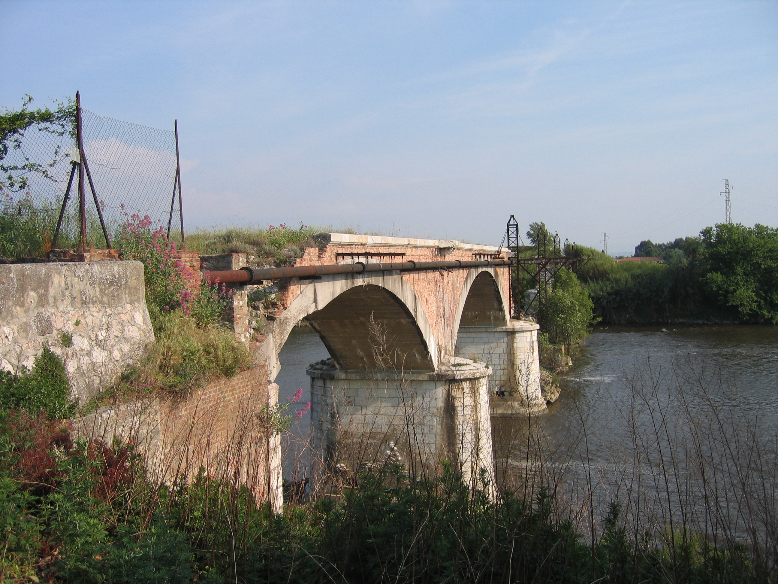 Calcinaia - The bridga's ruins (22+232)